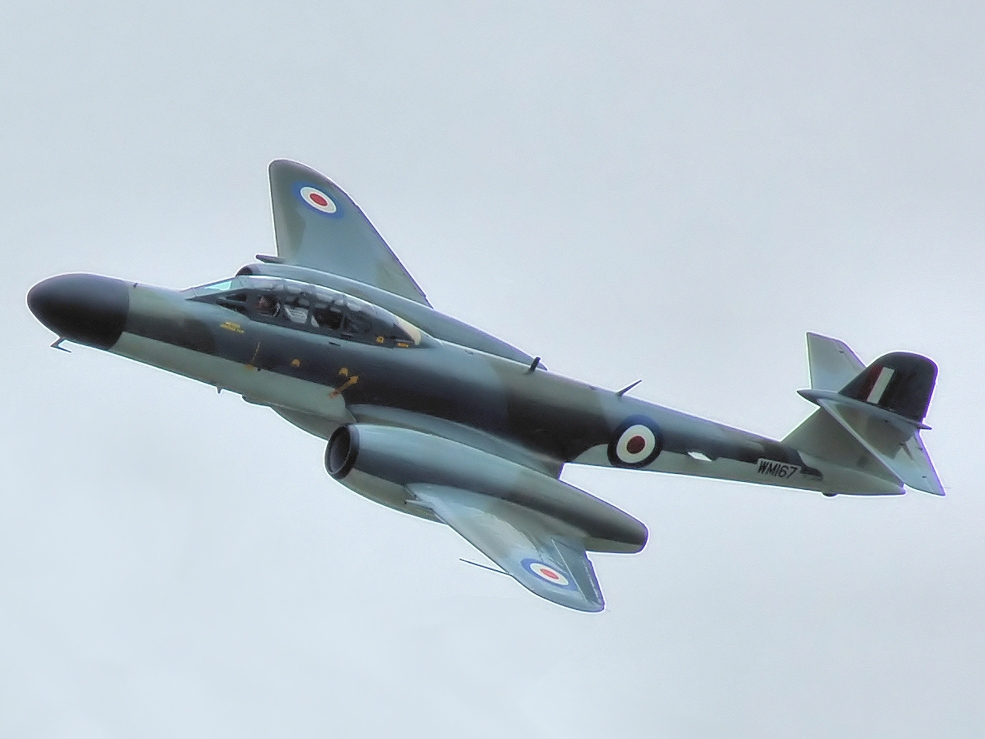 Privately-owned ex-RAF Hawker Hunter T7A (RAF code WV318, civil registration G-FFOX) flies with privately-owned ex-RAF Gloster Meteor NF11 (RAF code WM167, civil registration G-LOSM) at Kemble Air Show, Kemble Airport, Gloucestershire, England. The Hunter is in the colours of the former RAF Black Arrows aerobatics team and was delivered to the RAF in 1955. The Meteor was built by Armstrong Whitworth in 1952 at their Baginton (Coventry) factory. It entered RAF service in 1952 and left RAF service in 1975.